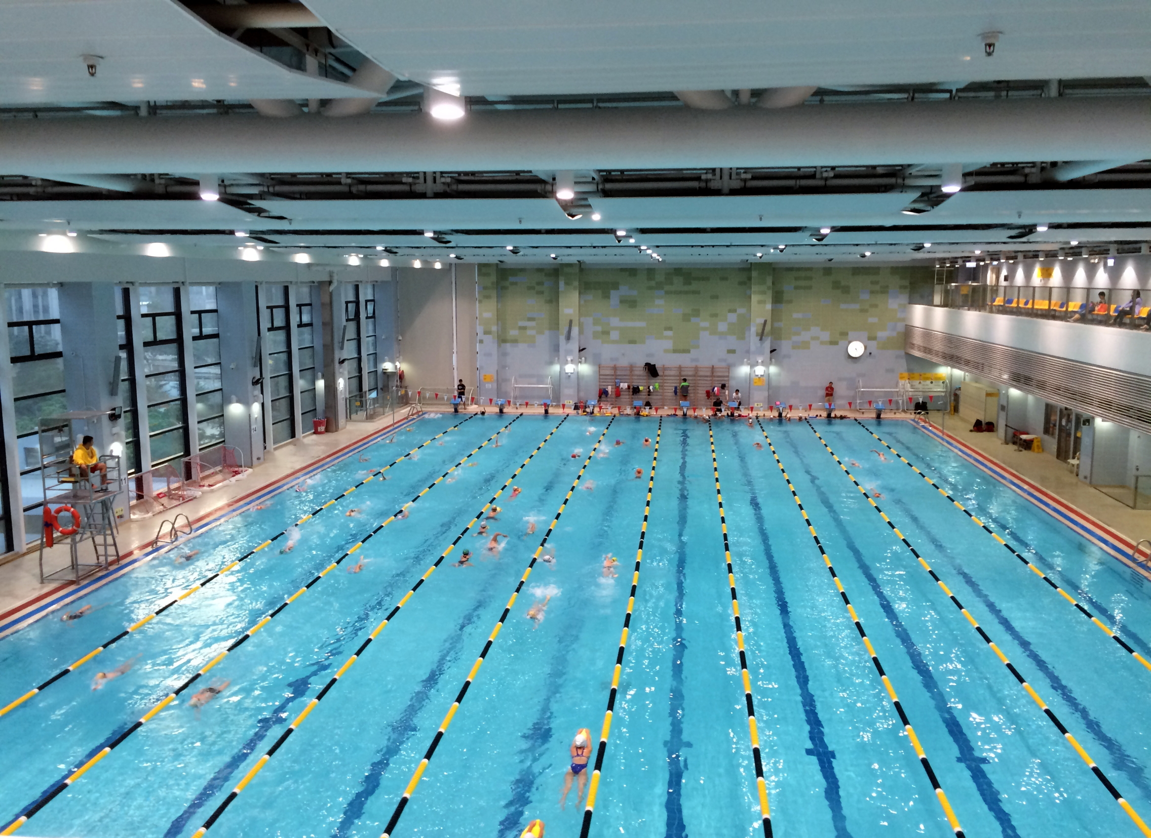 Wan Chai Swimming Pool Interior